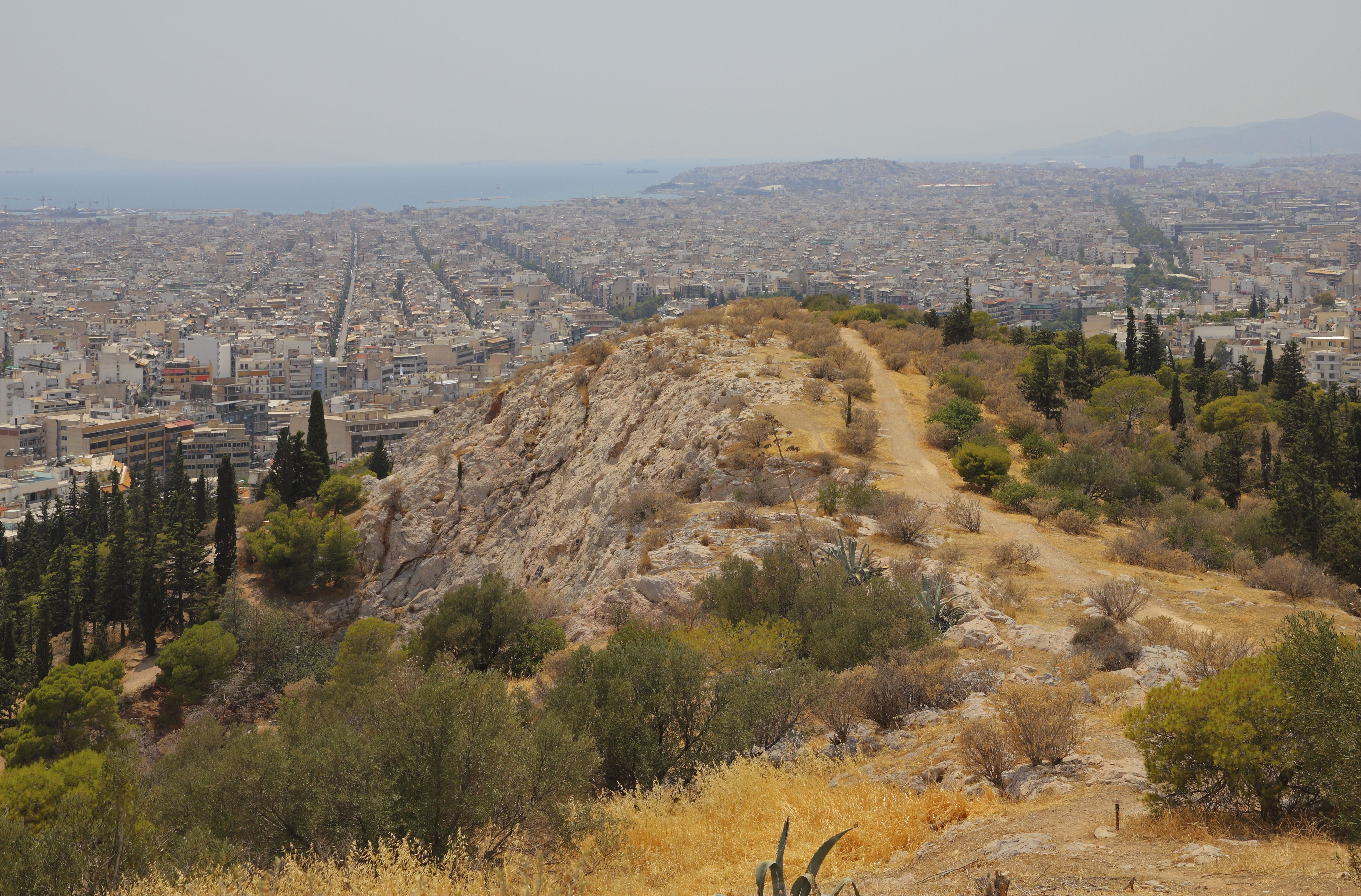 View from Philopappos Hill in Athens (Attica, Greece)